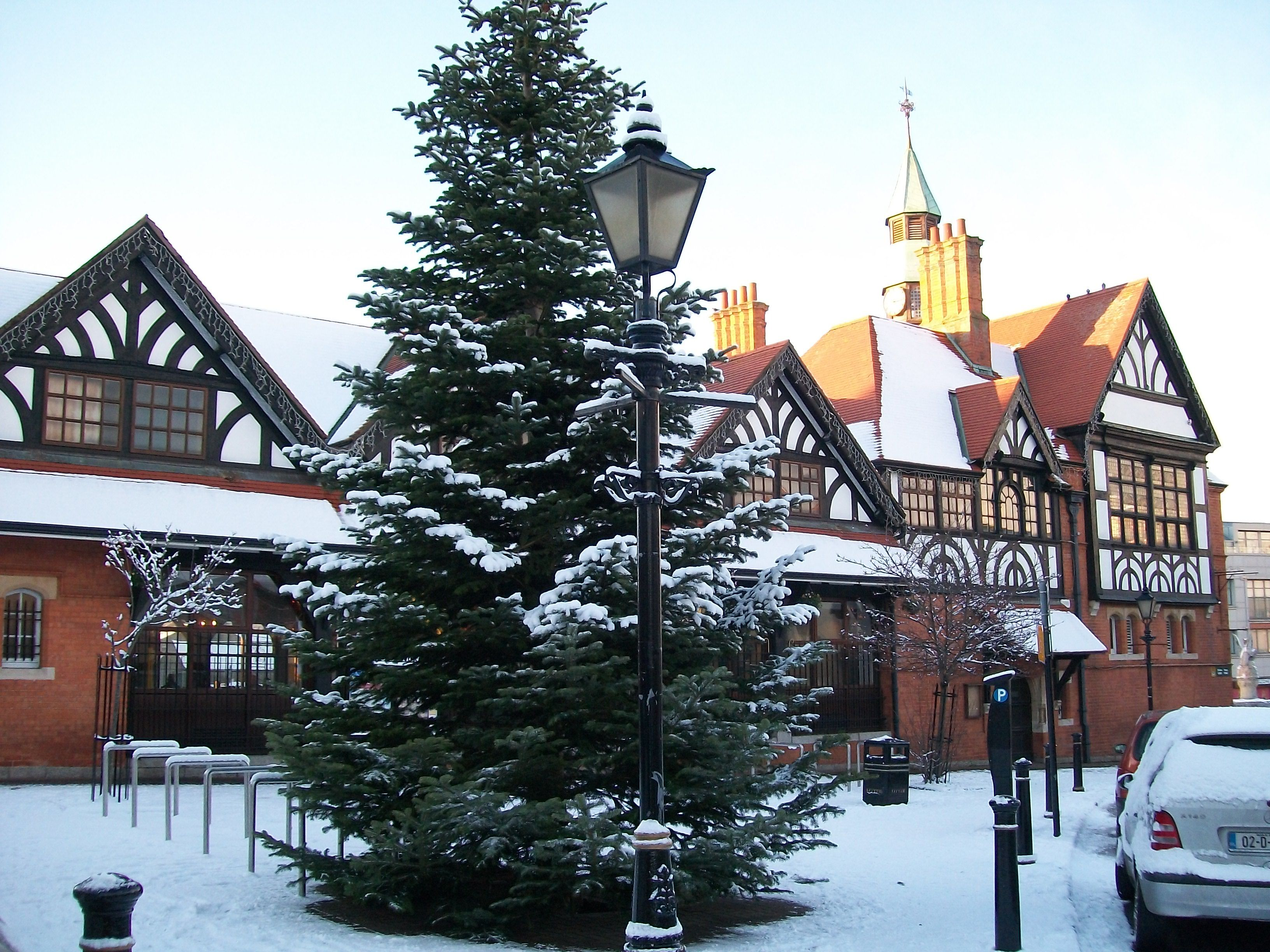 Bray Town Hall in the snow, viewed from Killarney Road.